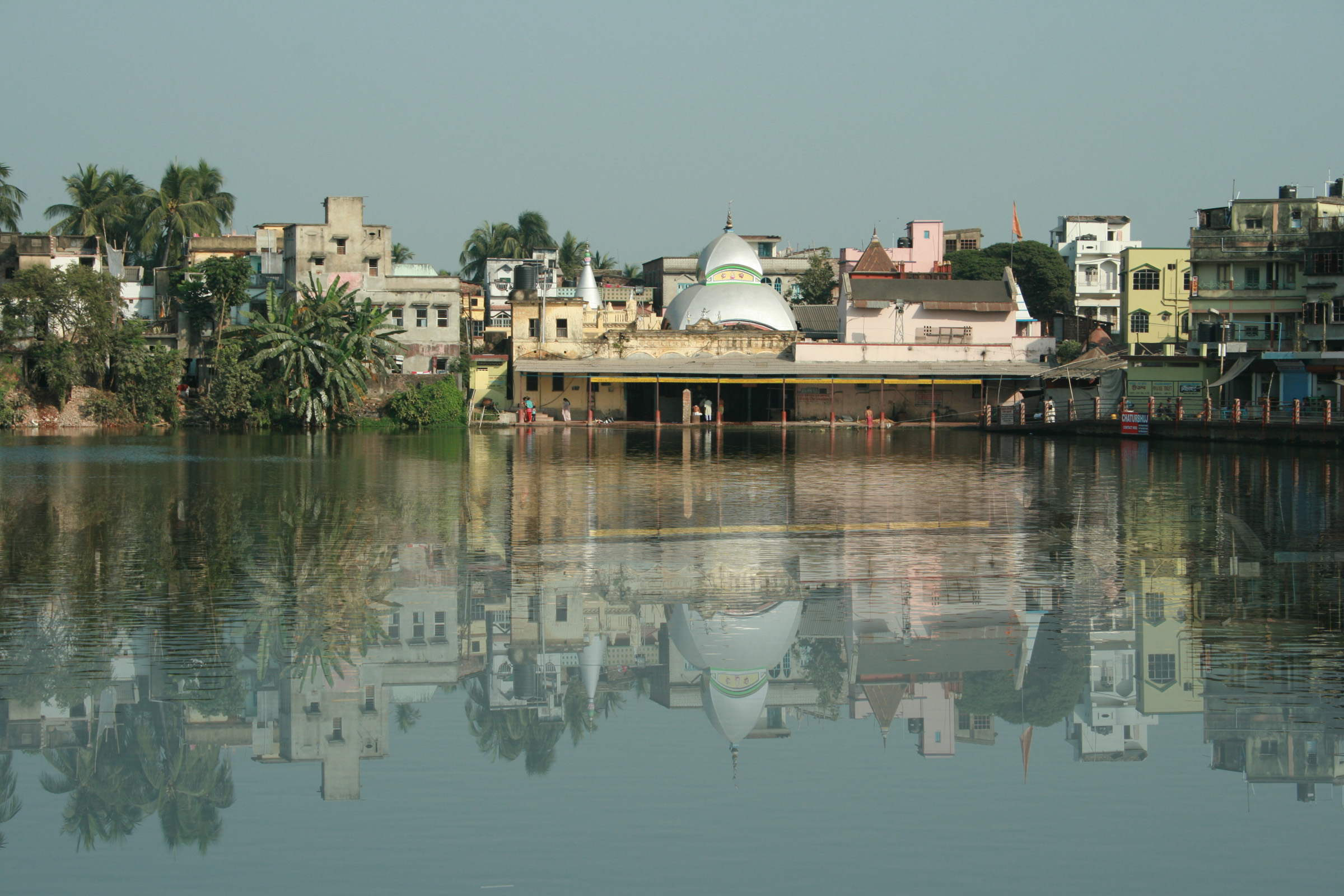 Bab Taraknath Temple Situated in Tarakeswar